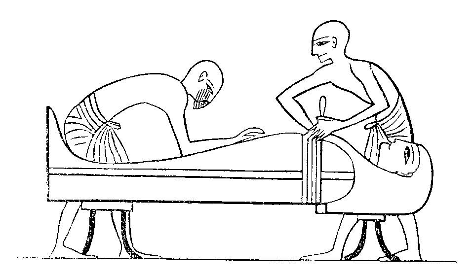 Illustration from "Illustrerad verldshistoria utgifven av E. Wallis. volume I": Embalming.